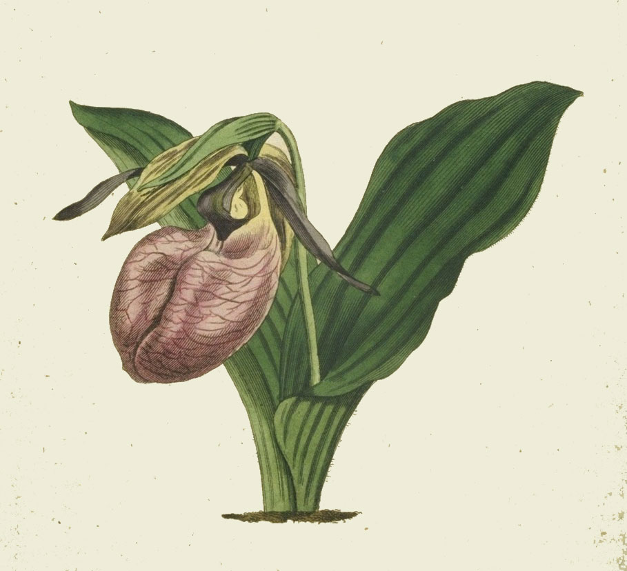 Cropped plate of Cypripedium acaule. Two-Leaved Lady's Slipper, Moccasin Flower, or Pink Lady's Slipper. Plate No 192, appearing in Volume 6 of Curtis's Botanical Magazine.